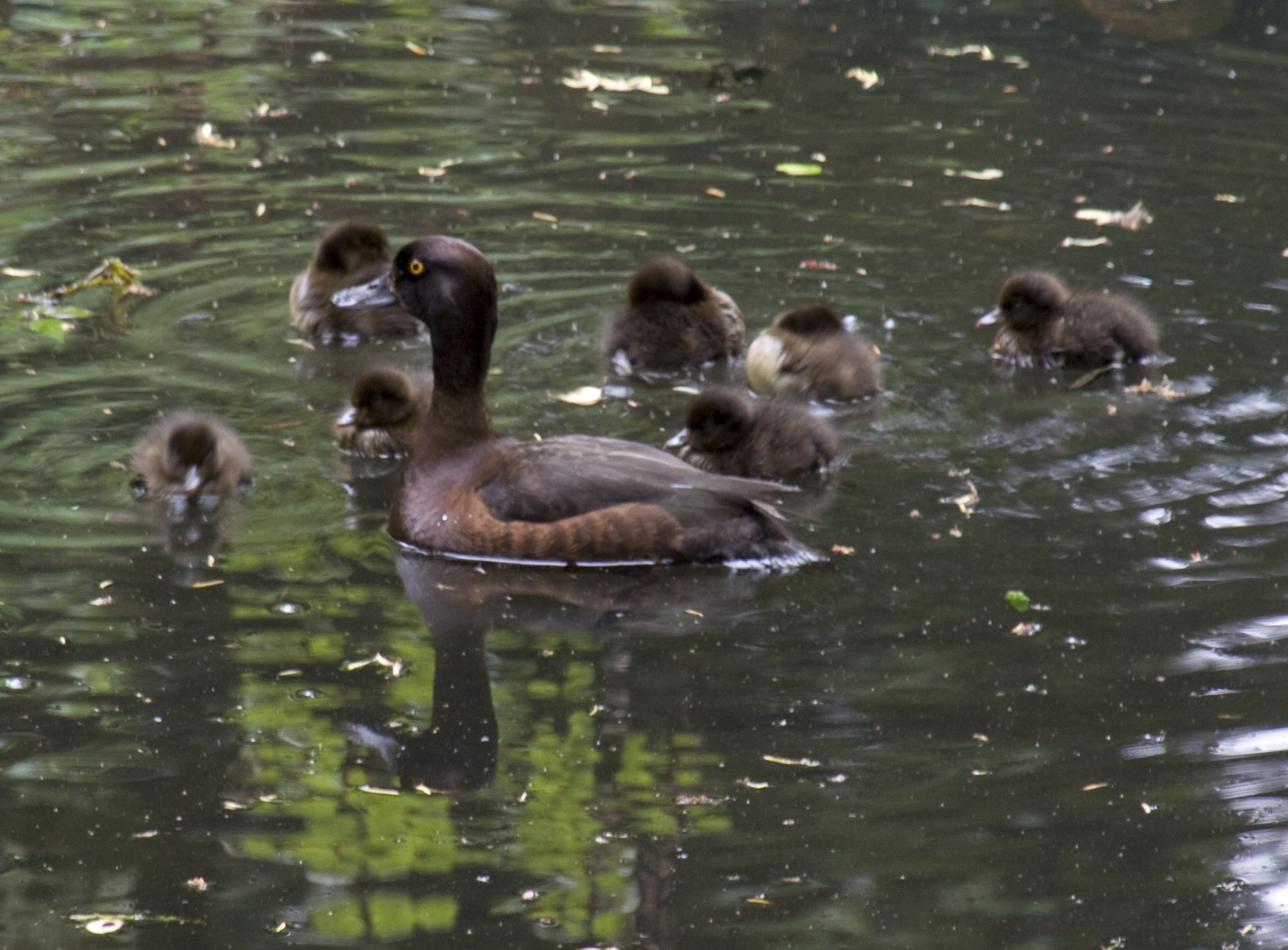 Female Tufted duck with young